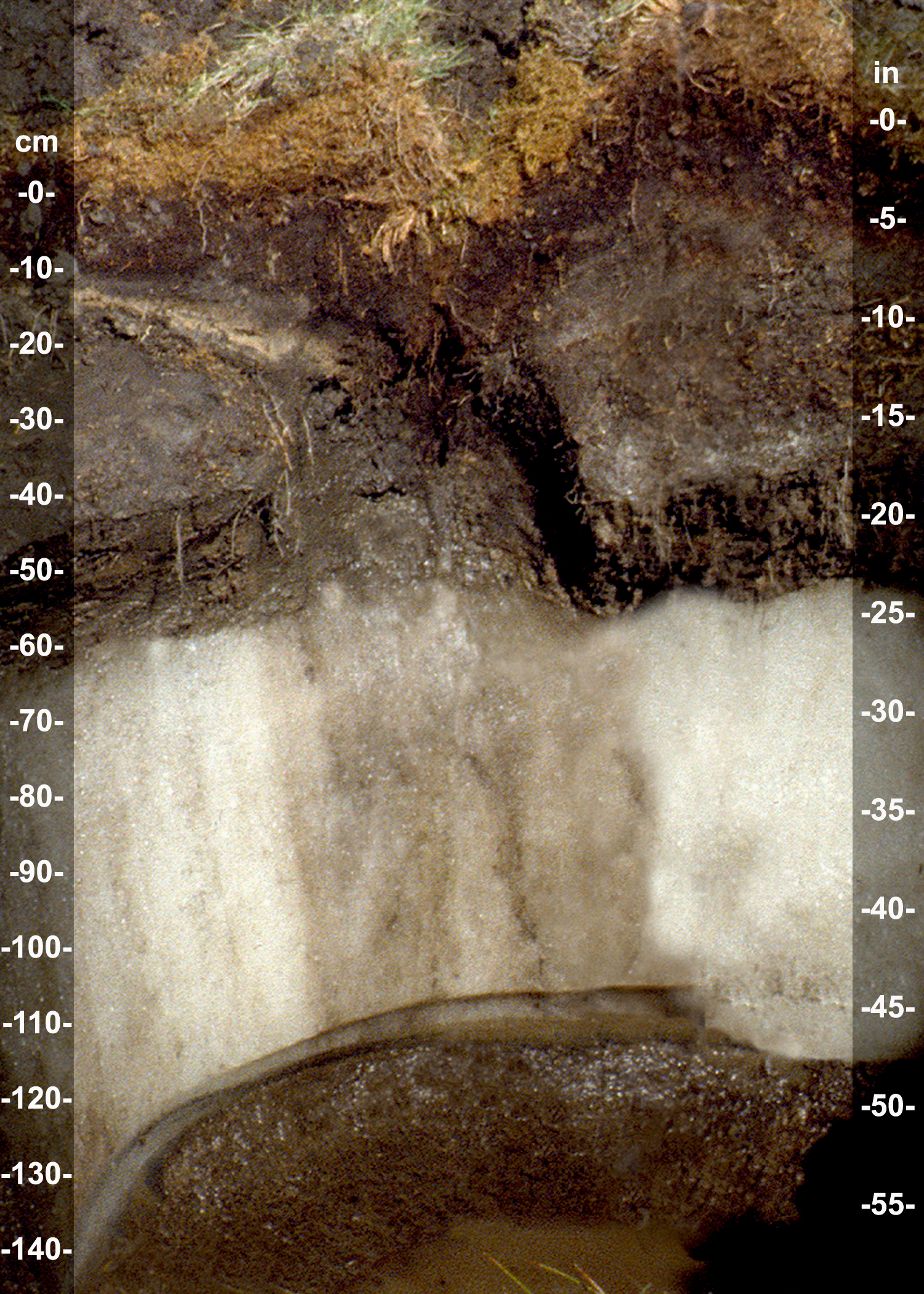 Photo by John A. Kelley, USDA Natural Resources Conservation Service. If this photo is used in a publication, on a web site, or as part of any other project, please use the provided photo credit. This photo may not be used to infer or imply USDA-NRCS endorsement of any product, company, or position. Please do not distort or alter the images the photos portray.